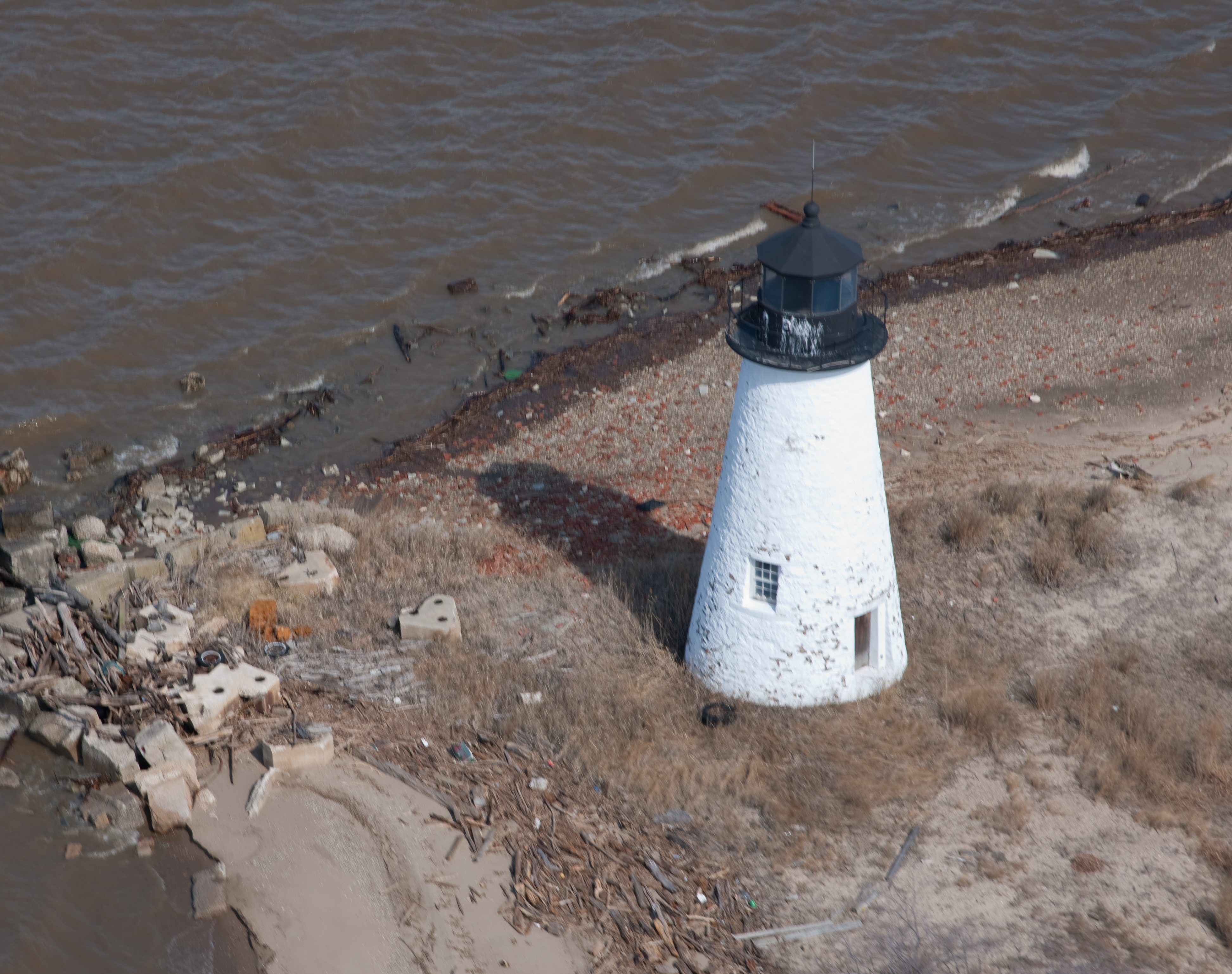 Poole's Island Light, Chesapeake Bay, Maryland, USA